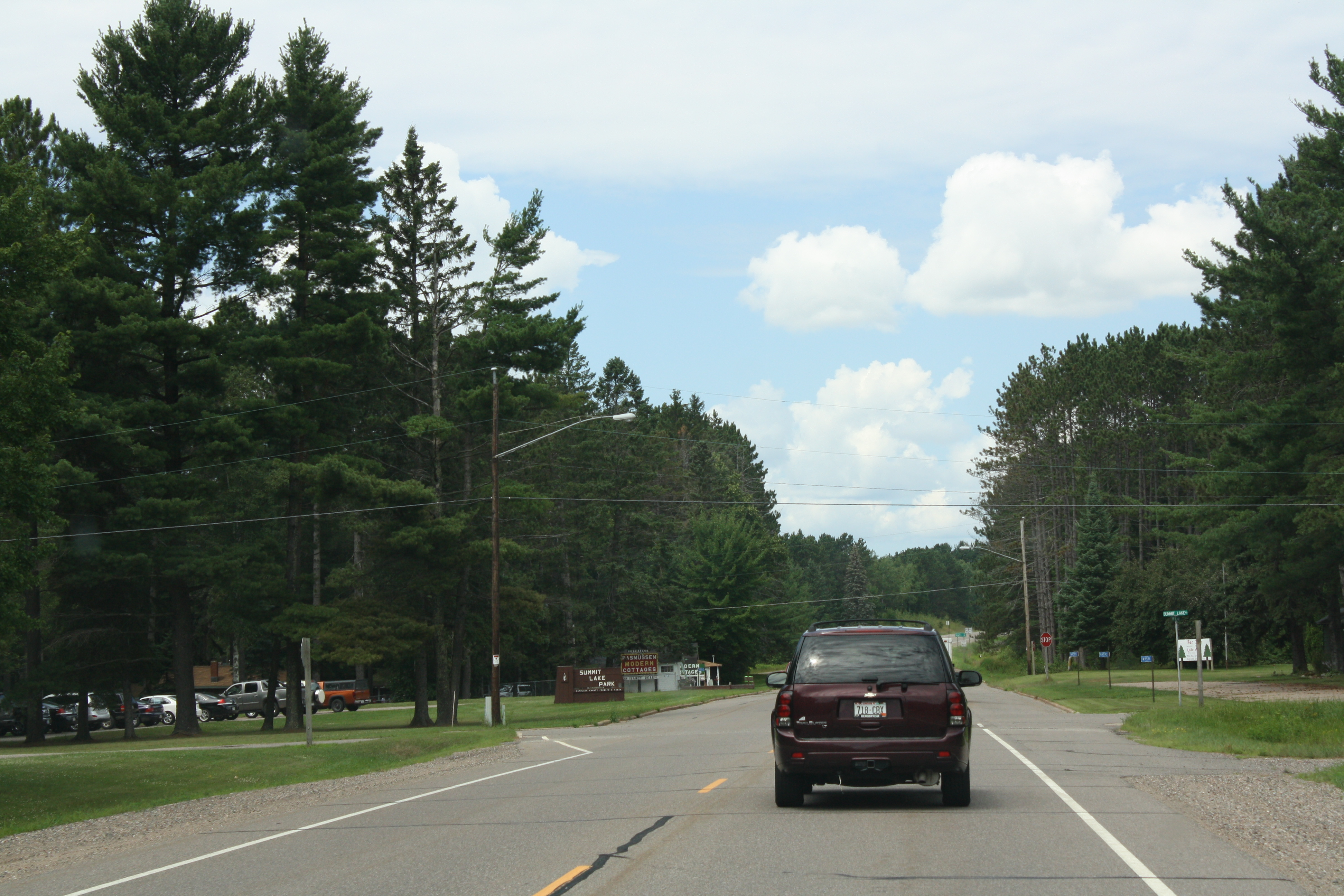 Looking north at downtown Summit Lake, Wisconsin on U.S. Route 45.